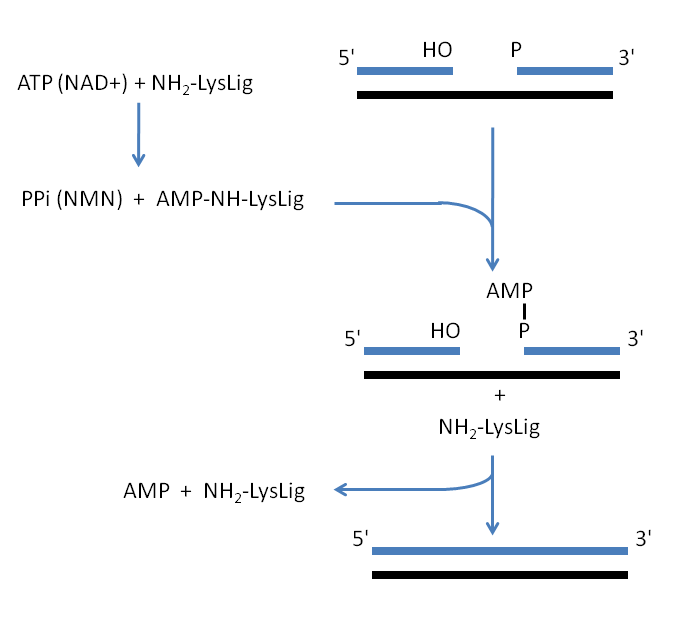 Enzymatic steps of DNA ligation by DNA ligase (Lig). First, enzyme–AMP is formed by the attack of Lys on the alpha-phosphate of ATP (or NAD+), releasing inorganic pyrophosphate (PPi) or nicotinamide mononucleotide (NMN). Next, the 5'-phosphate (5' P) of the nicked DNA strand attacks the Lys–AMP intermediate to form an AppDNA intermediate (pyrophosphate linkage, 5' P to the 5' phosphate of AMP). Finally, the 3'-OH terminated end of the nicked strand attacks the 5' P of AppDNA, covalently joining the DNA strands and releasing AMP.